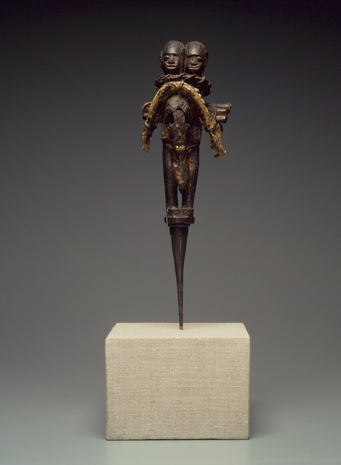 Wooden fetish object. Twin figures carved on platform base which tapers and is placed in a ferrule. Duck skull placed on front of torso, human jawbone(?) attached encrusted heavily with undetermined substance, perhaps blood. Necklaced with cowrie shells and string.